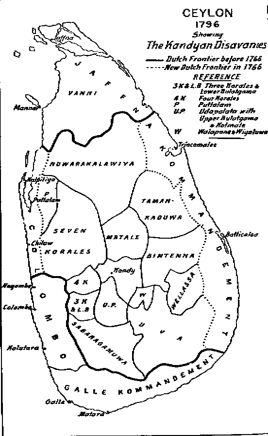 Preovincies de Ceilan a finals del segle XVIII